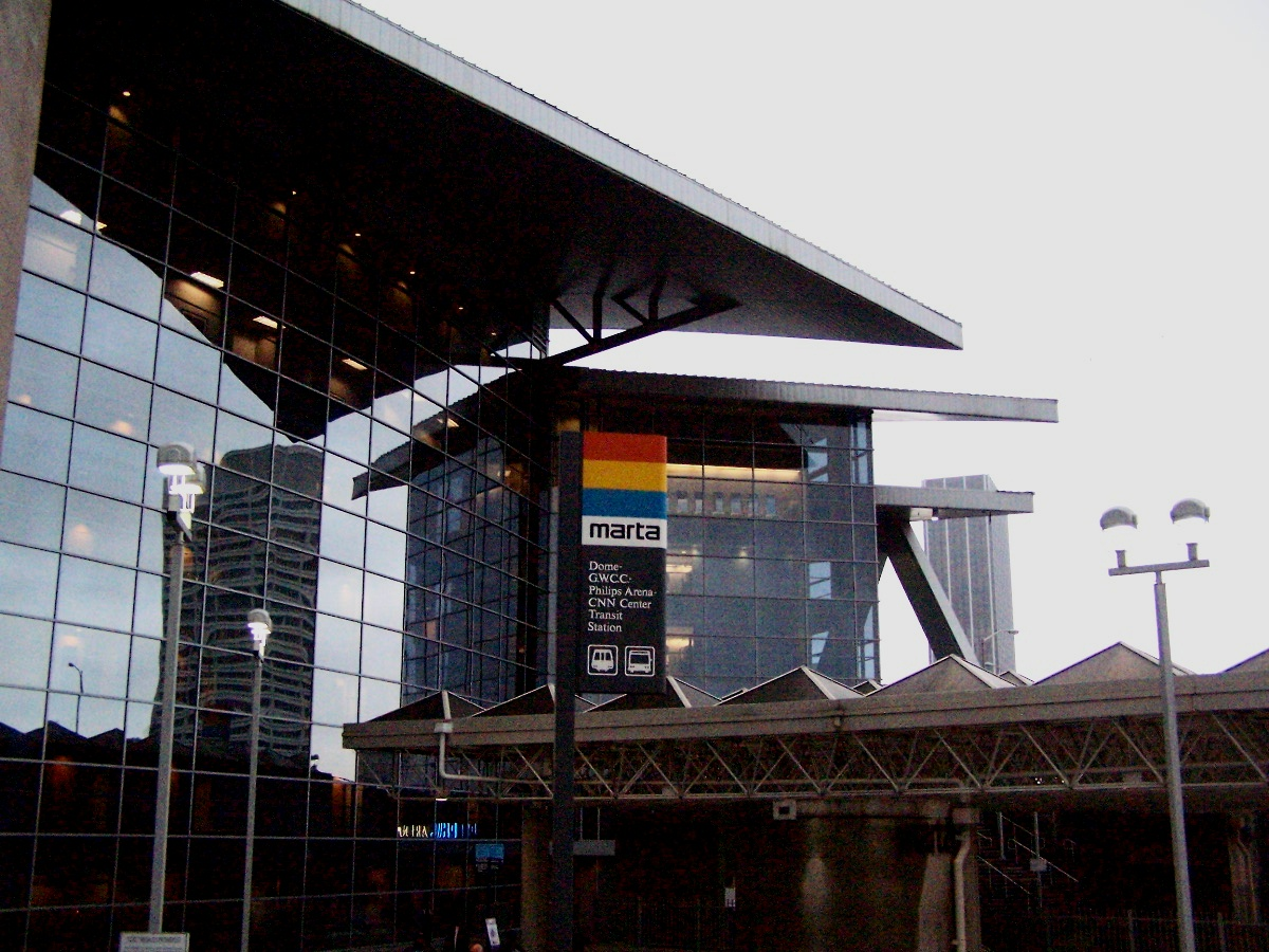 Philips_Arena_outside, in Atlanta, Georgia